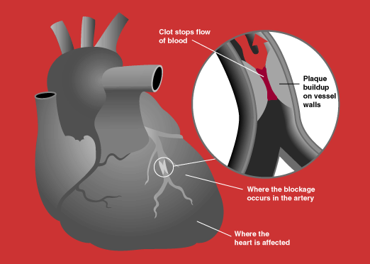 Heart attack diagram